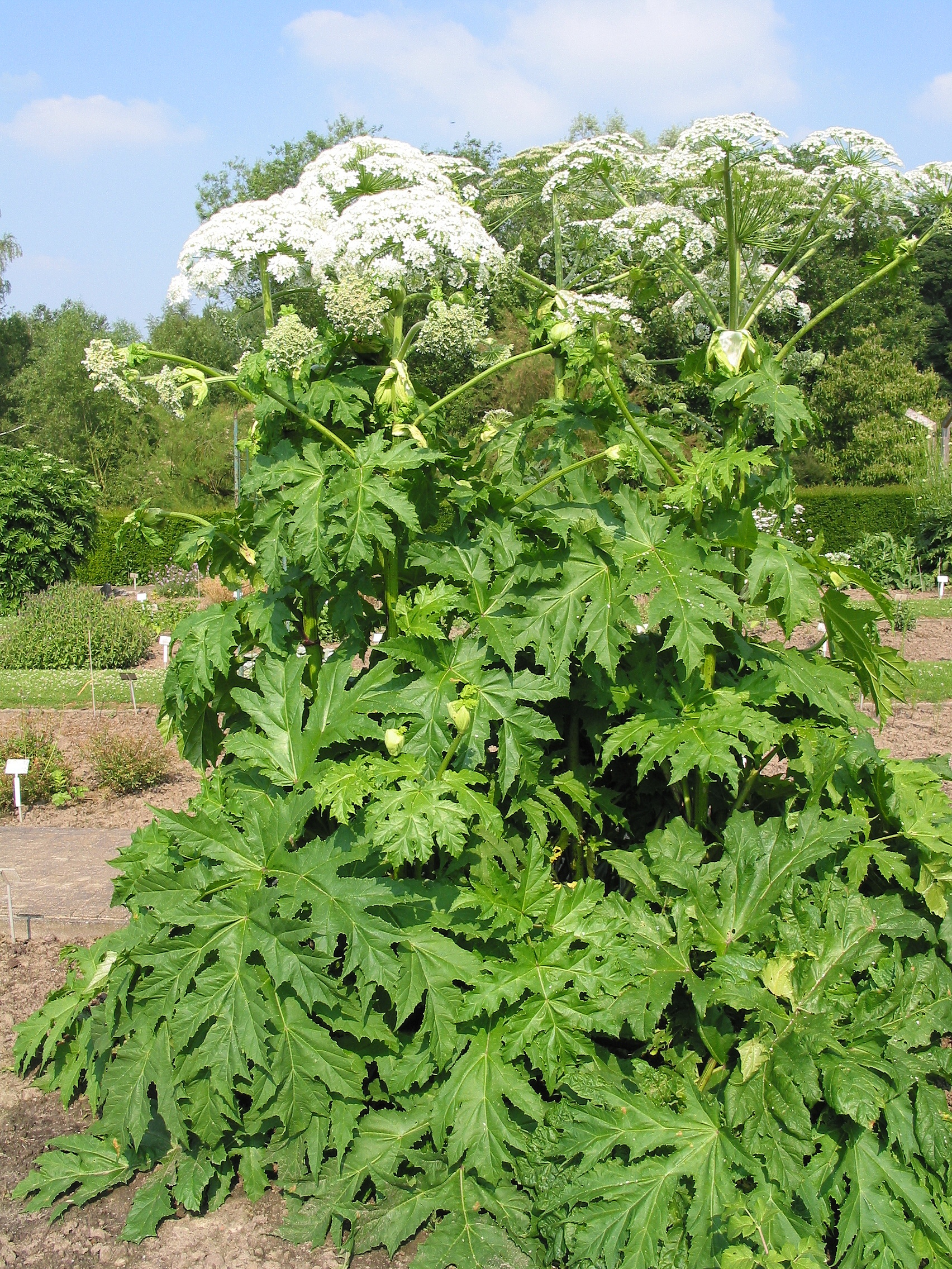 Giant Hogweed (Heracleum mantegazzianum) – Herbetum of the National Botanic Garden of Belgium.